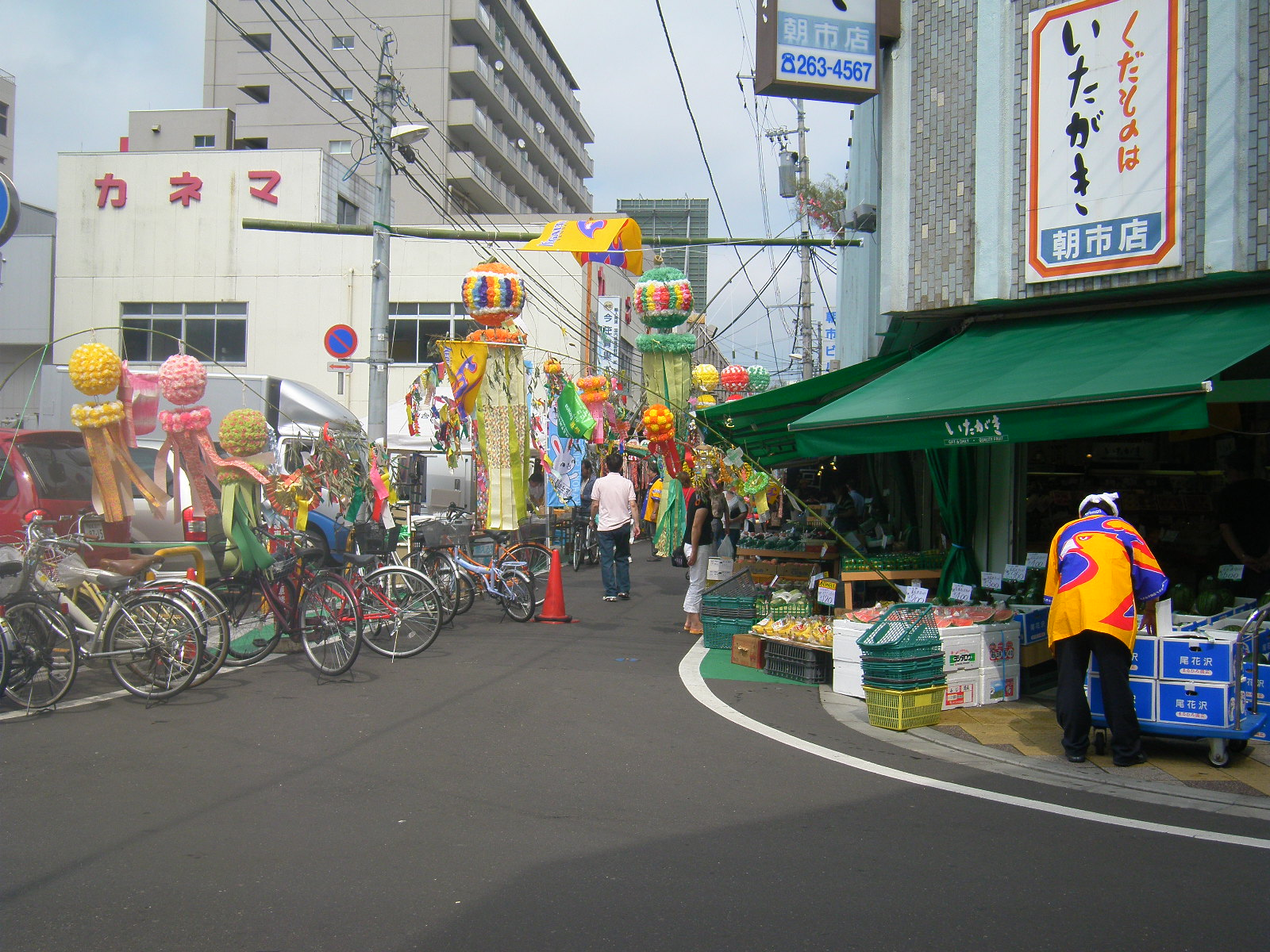 West end of the Sandai Asaichi (Sendai Morning Market) in the Sendai Tanabata Festival. Chūō 3 chōme (left) and Chūō 3 chōme (right), Aoba ward, Sendai, Miyagi prefecture, Japan.